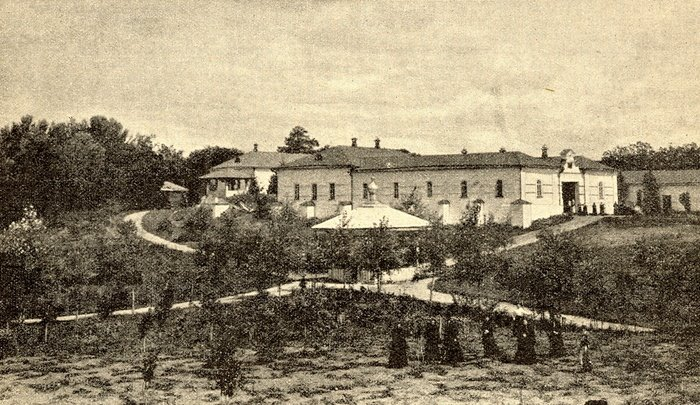 Nikolo-Tikhvinsky Monastery (Николо-Тихвинский монастырь (Пятницкое)) in Pyatnitskoye (Пятницкое). Voronezhskaya Guberniya (now - Belgorodskaya Oblast)